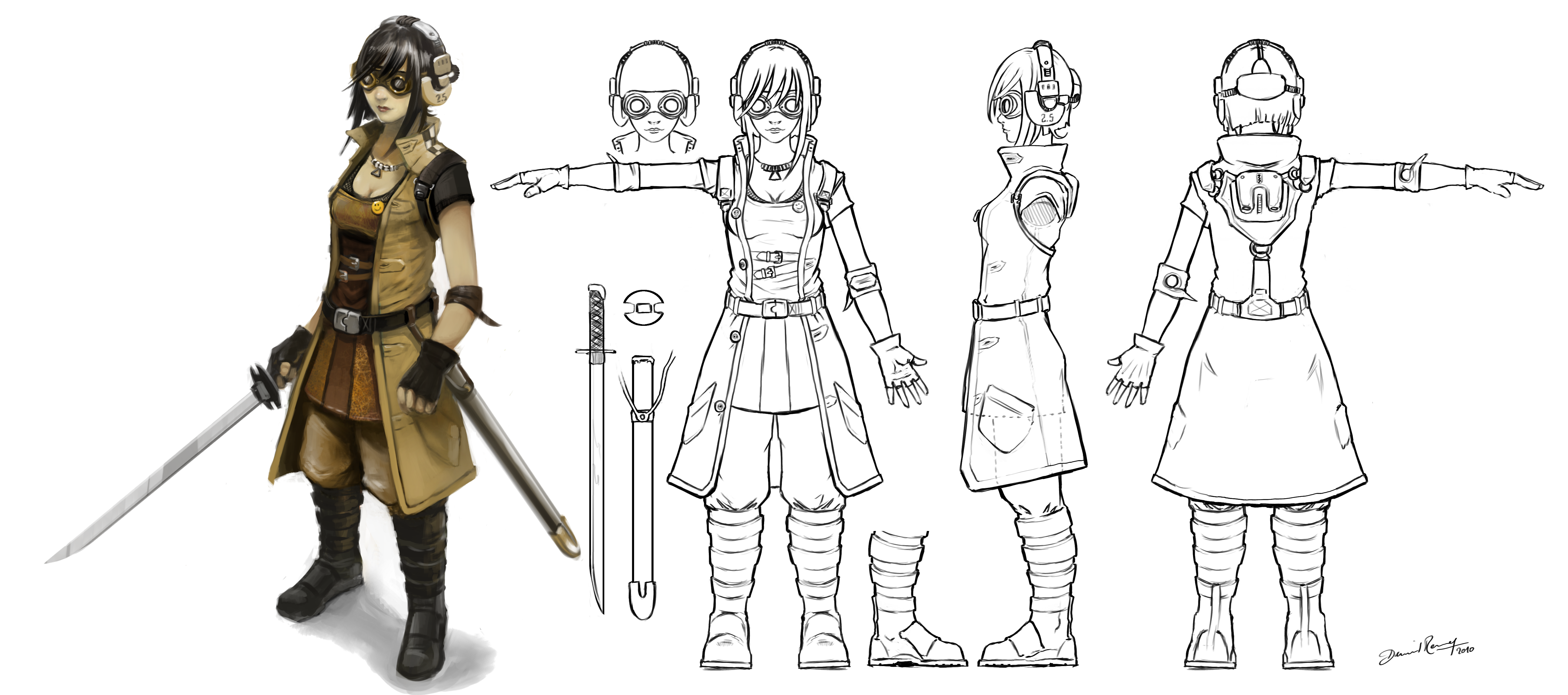 Artwork from the Open Movie Workshop 'Chaos&Evolutions'. A DVD training about digital painting, concept art, Gimp-painter 2.6 and Mypaint 0.7 .